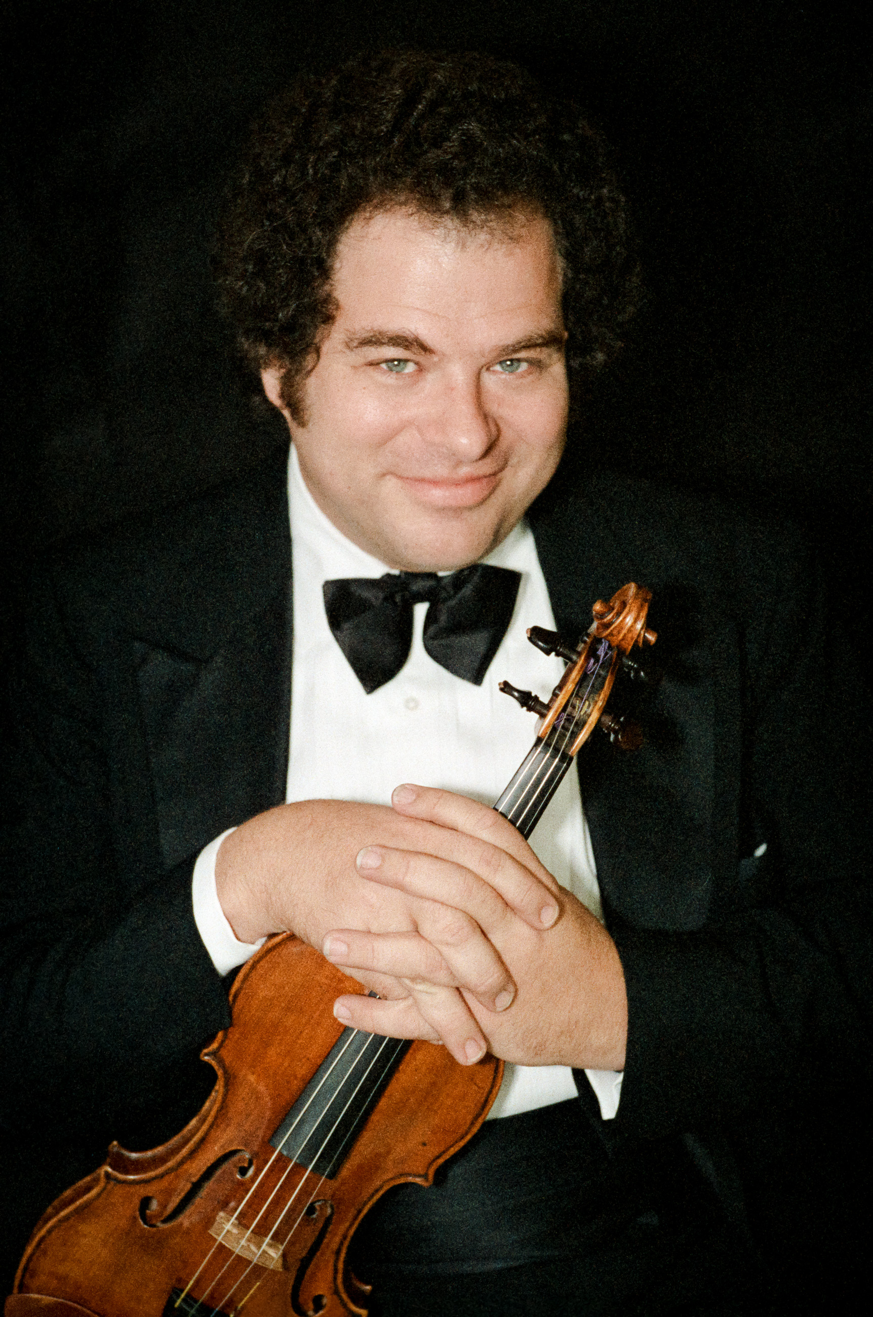 Portrait of Itzhak Perlman, violinist, taken 1984. Film scan.